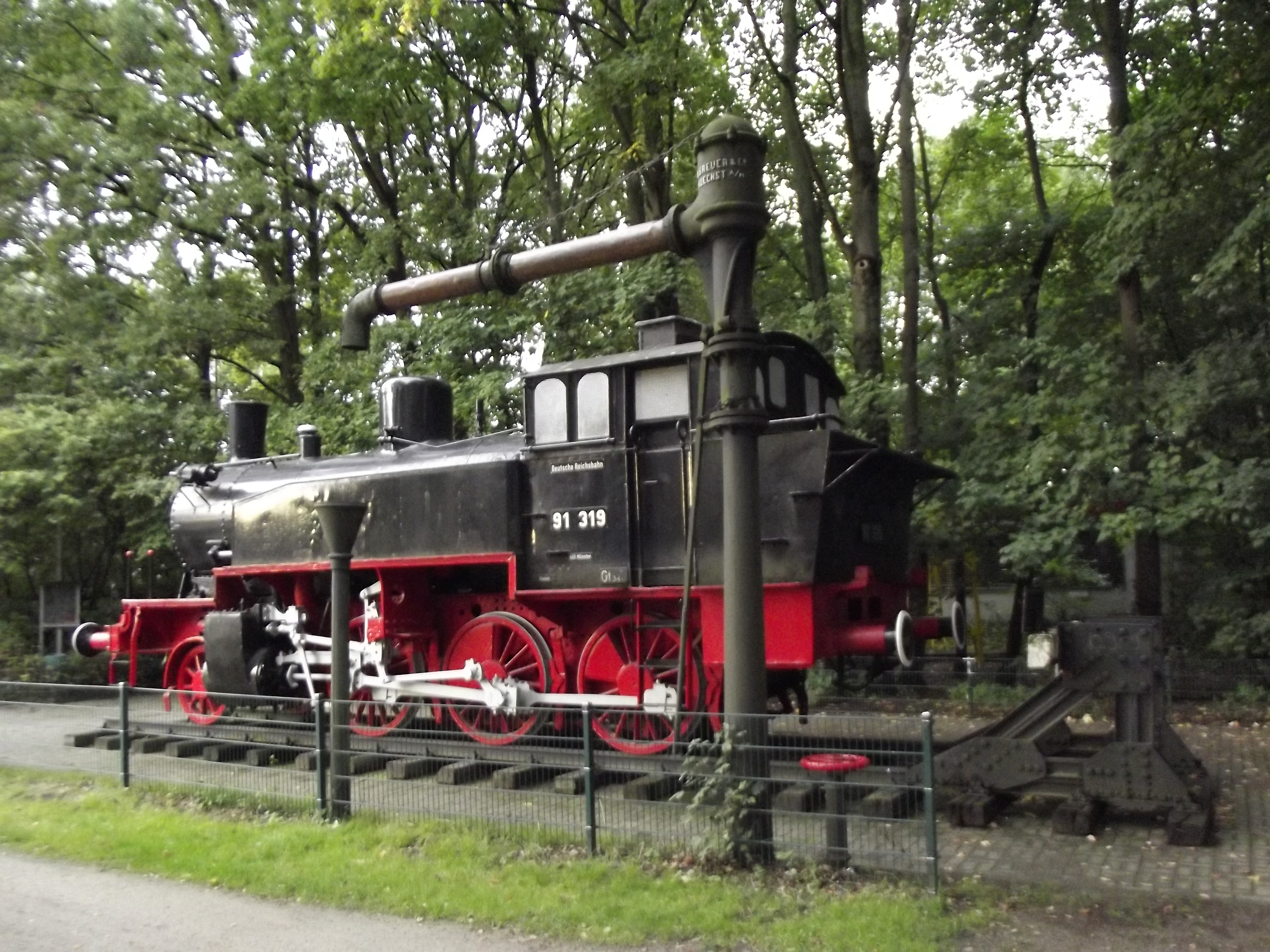 Part of a private railway history museum. The locomotive, called "Pängelanton", is No. 91 319, class T 9/3, built 1902, Henschel-Werke, Kassel.